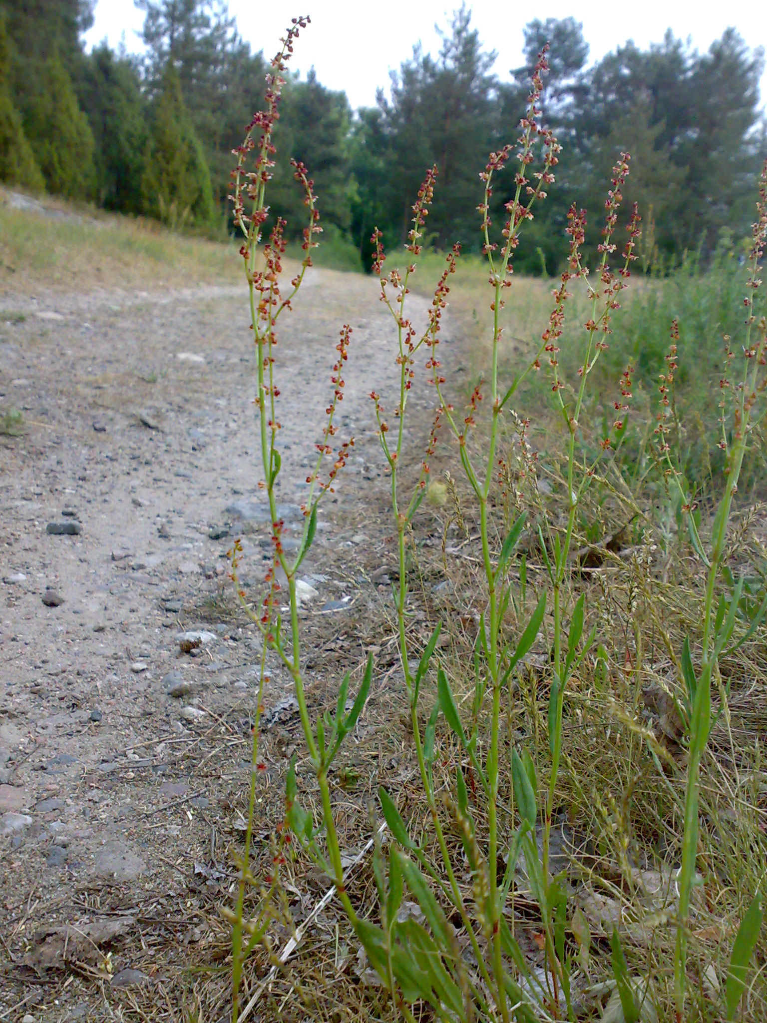 Rumex acetosella Småsyre